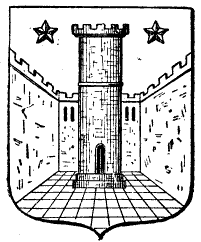 The coat of arms of Kexholm County (now in Russia) from when it belonged to Sweden.